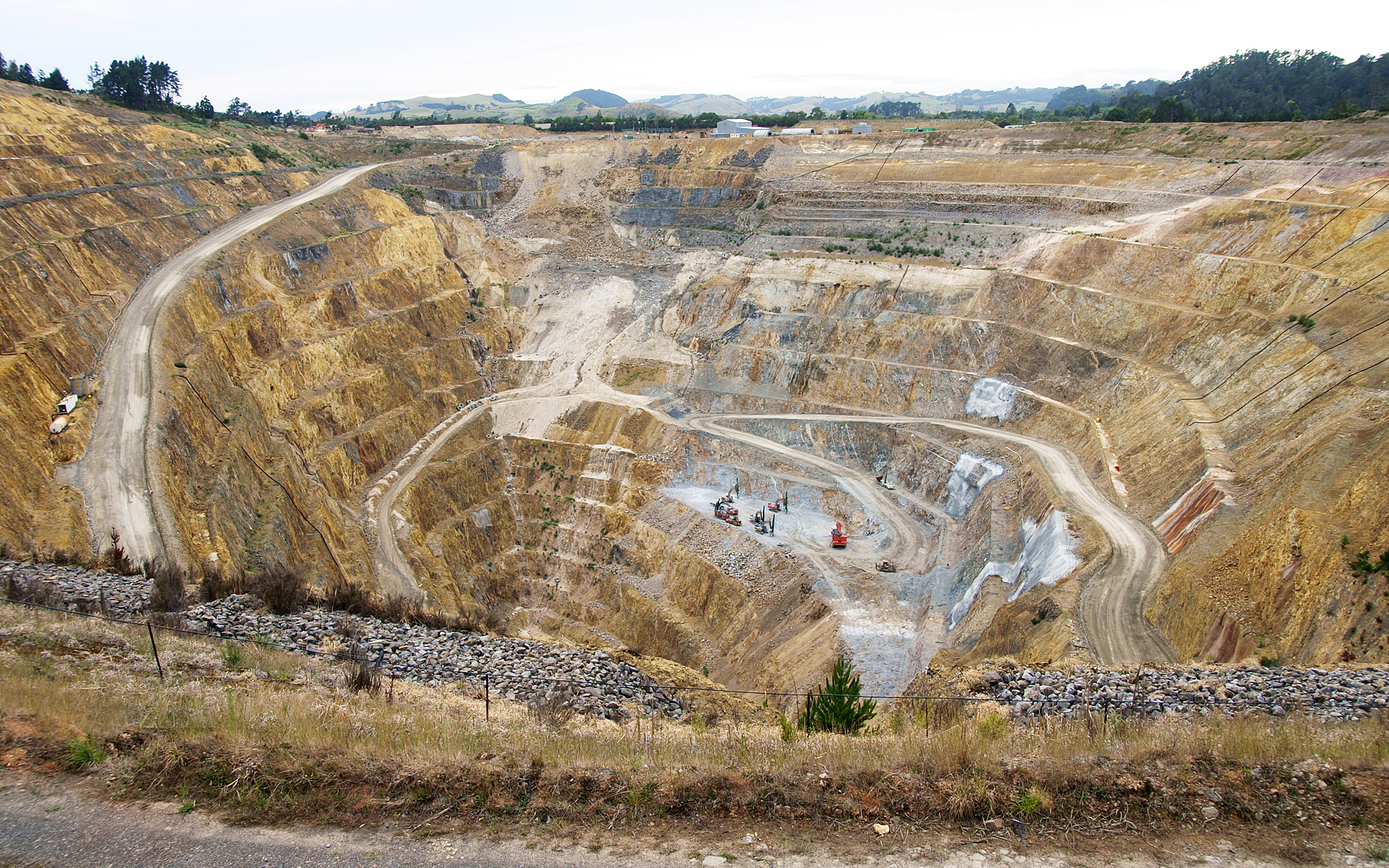 Martha Mine (gold mine), Waihi, Bay of Plenty, North Island, New Zealand